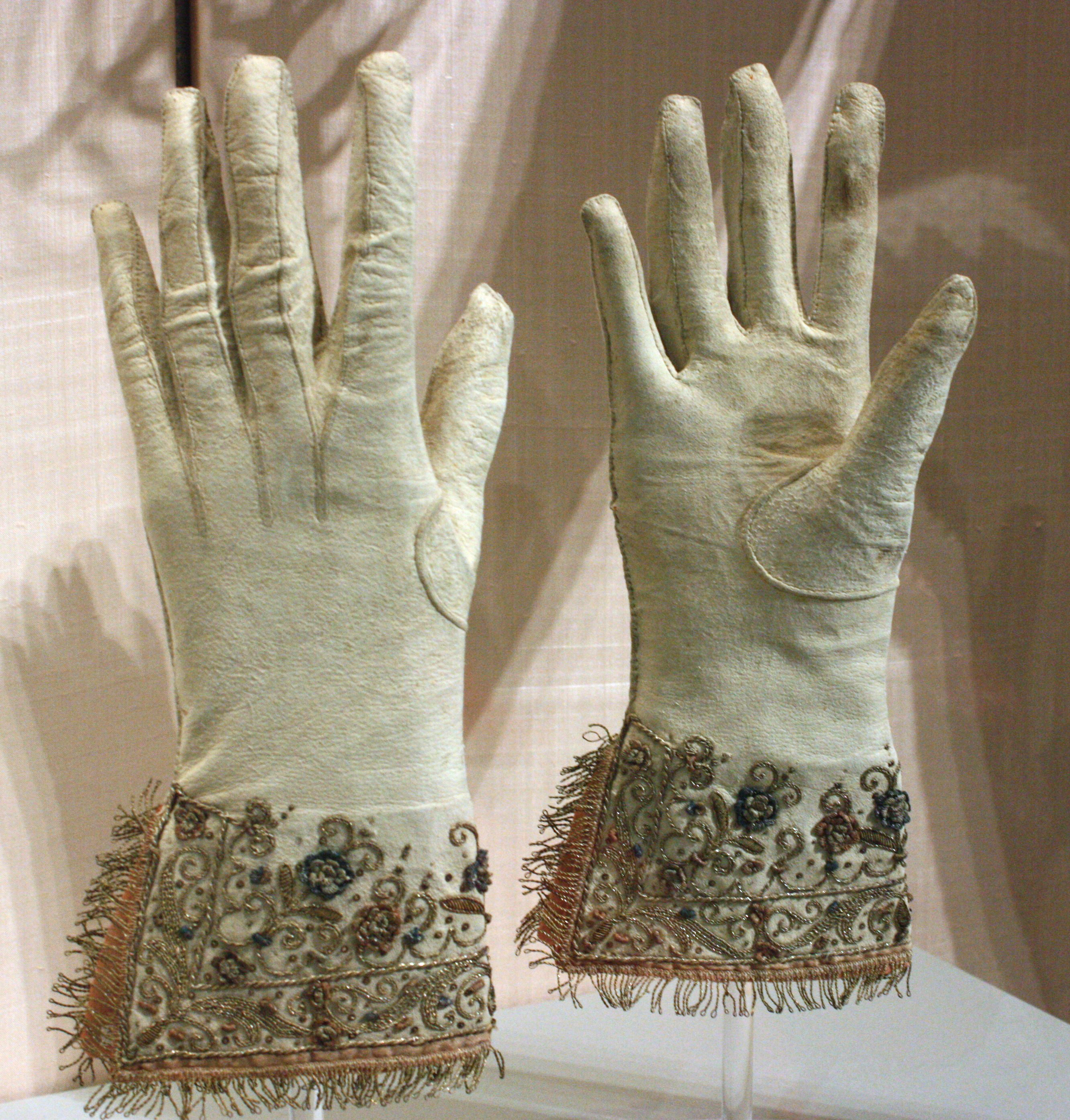 Pair of embroidered leather gloves 1615-1625 England Leather (kidskin) embroidered with silk and silver-gilt thread Gloves could serve several purposes in early 17th century Britain, apart from the obvious ones of protection and warmth. Many were solely decorative, to display the wealth and status of their owner. They were worn in the hat or belt, as well as carried in the hand. Gloves were popular as gifts and were exchanged as a gesture of engagement or wedding present. In combat, a glove was thrown down as a gage, or challenge. Decorative gloves were popular with England�s working class. In 1618 Horatio Busini, chaplain to the Venetian ambassador to England, wrote disapprovingly in a report on English customs: �all wear very costly gloves. This fashion of gloves is so universal that even the porters wear them very ostentatiously.� The decoration of this pair is characteristic of the period 1615 to 1625 with couched embroidery in a stylised pattern and fringe of metal thread. Collection ID: 202&A - 1900 This photo was taken as part of Britain Loves Wikipedia in February 2010 by Valerie McGlinchey.